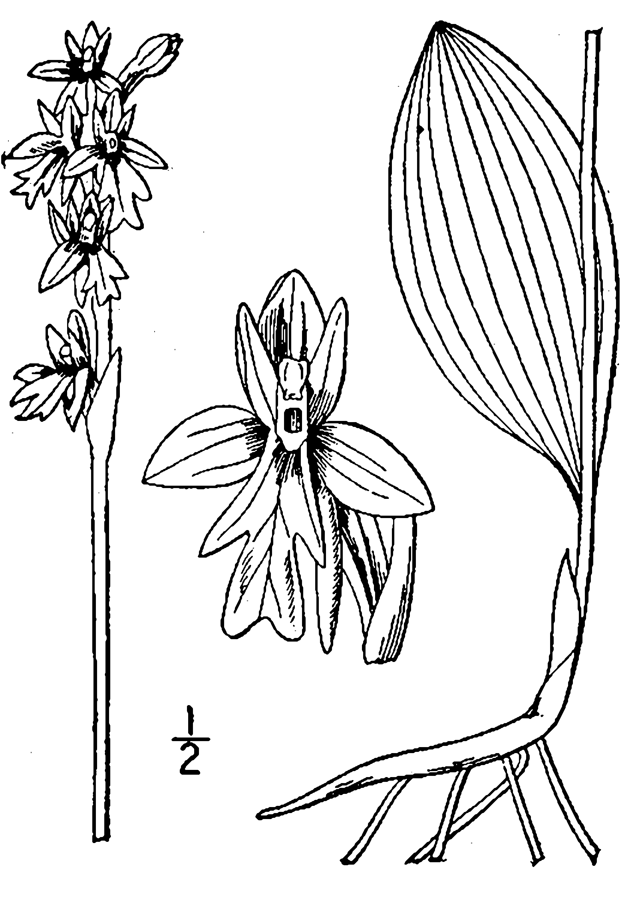 illustration of Amerorchis rotundifolia in Britton, N.L., and A. Brown: An illustrated flora of the northern United States, Canada and the British Possessions. Vol. 1: 551.